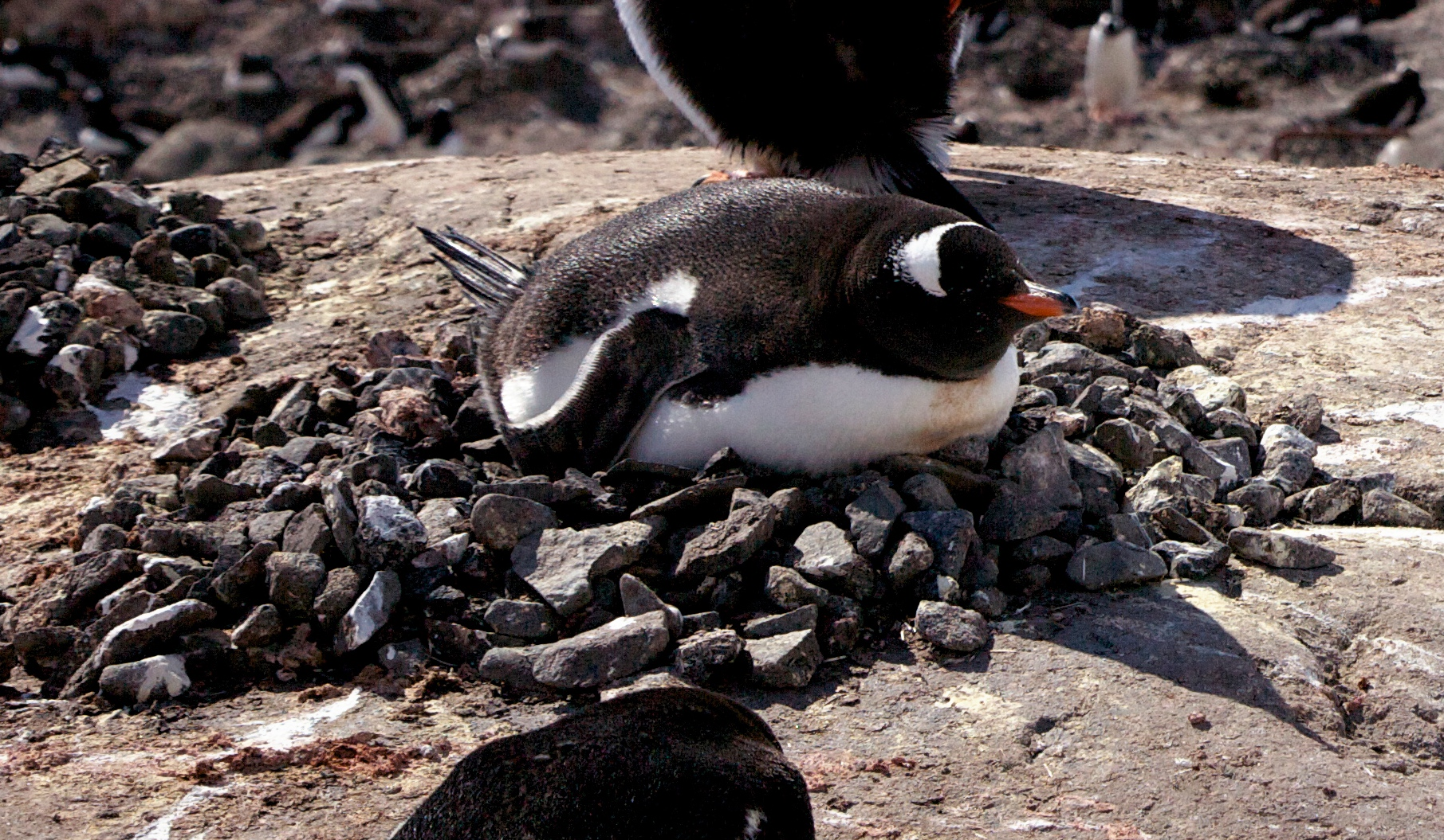 Gentoo penguin (Pygoscelis papua) on nest.